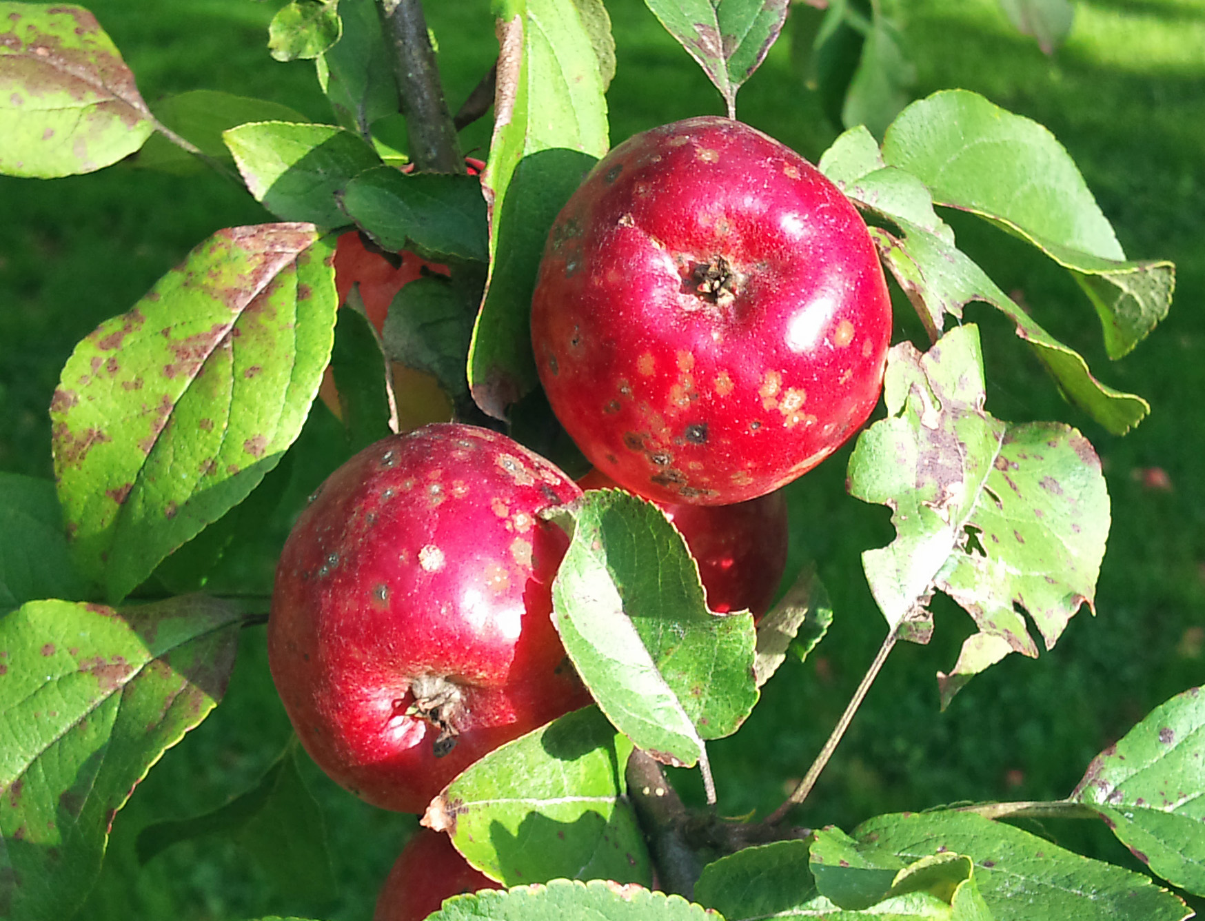 A Swedish apple variety.